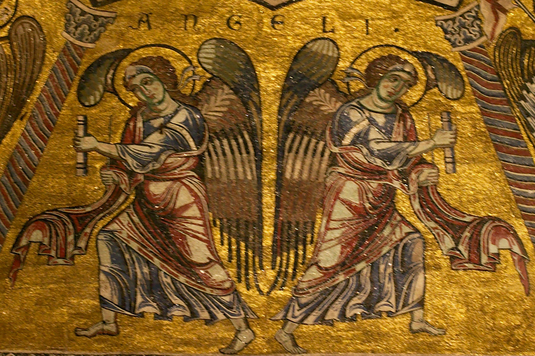 The mosaic ceiling of the Baptistery San Giovanni in Florece in total view (Stitched from 20 images, exif from one image)